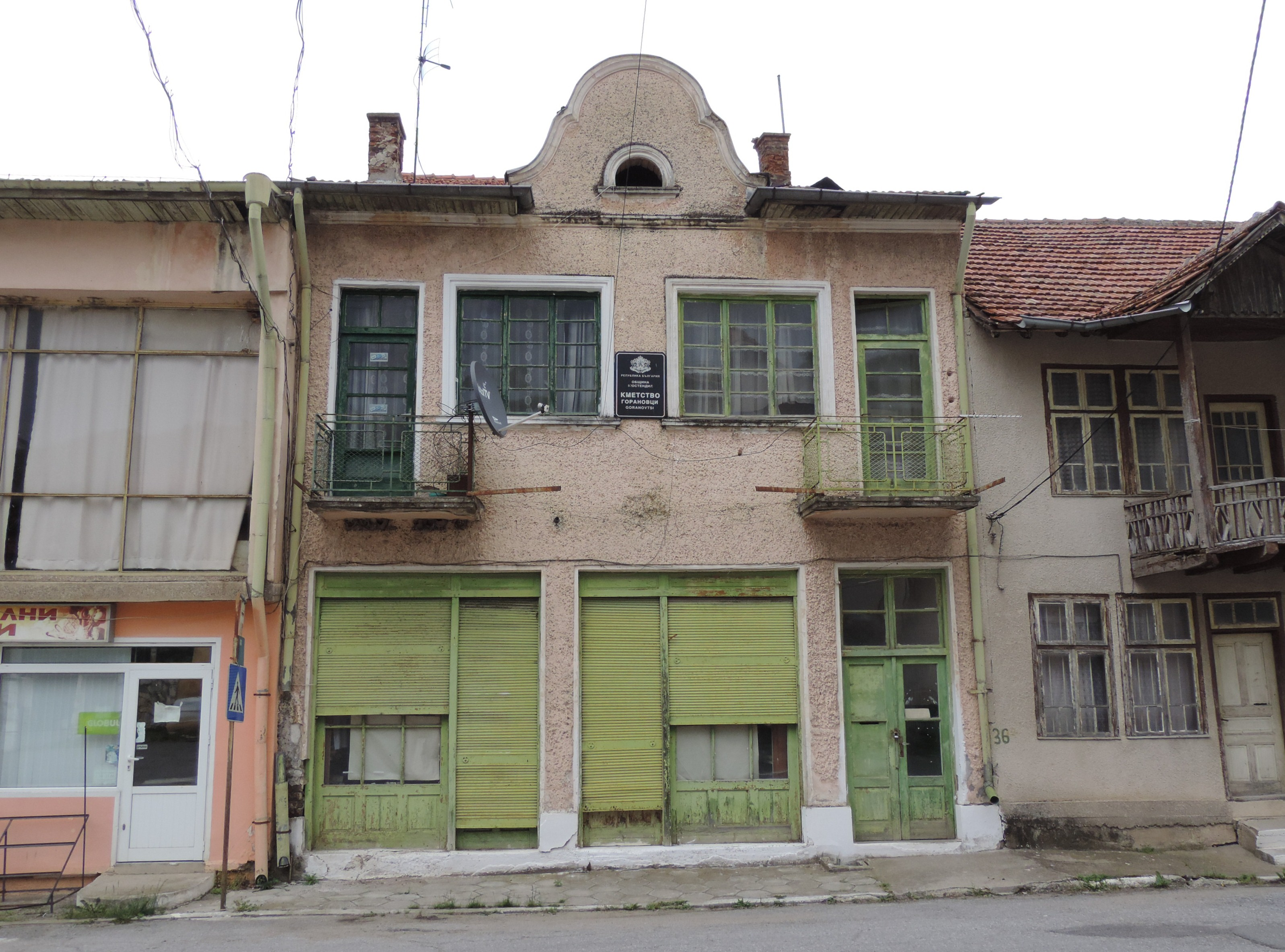 The mayor's office in village Goranovtsi, Kyustendil Province, Bulgaria